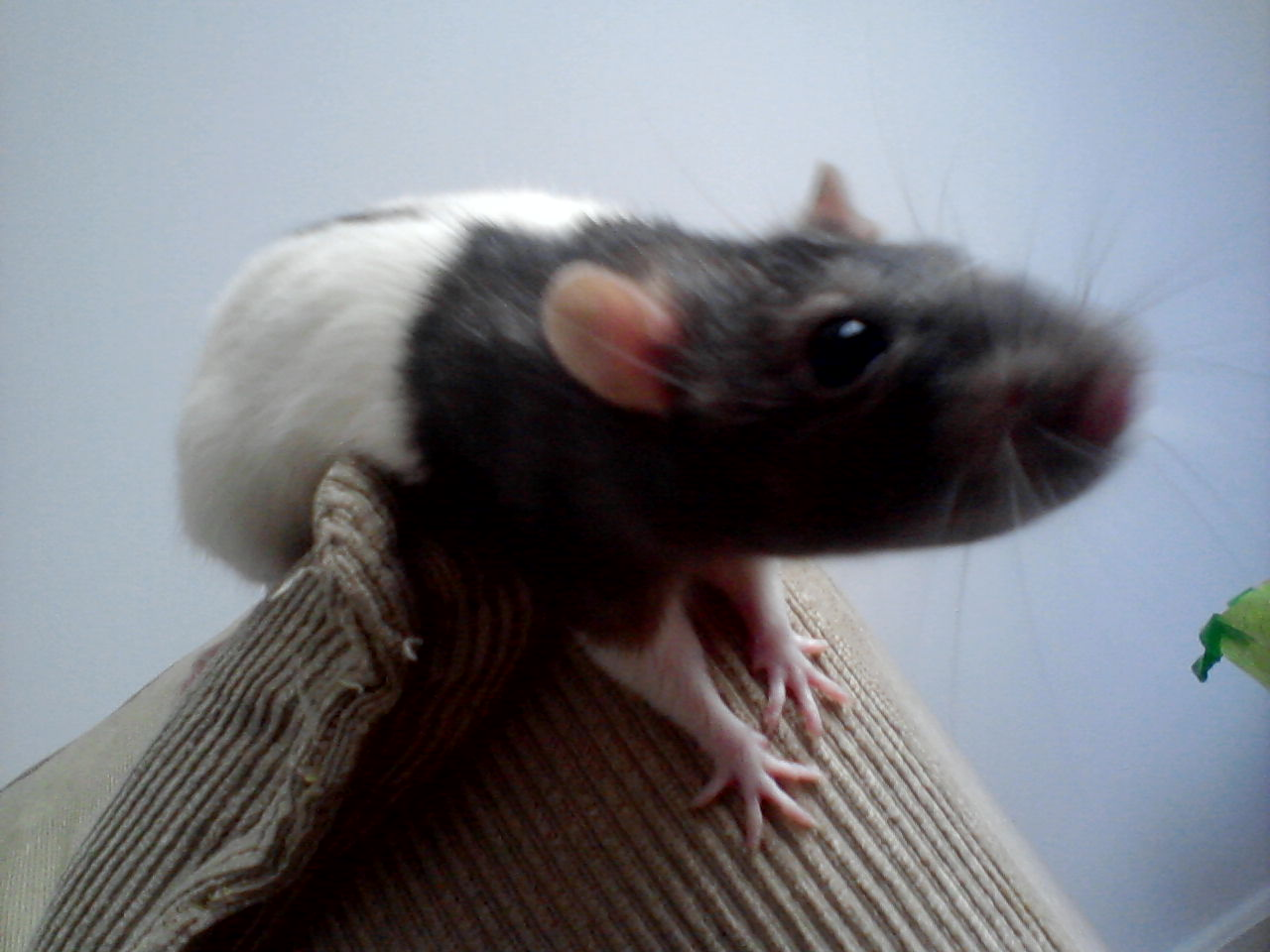 fancy rat